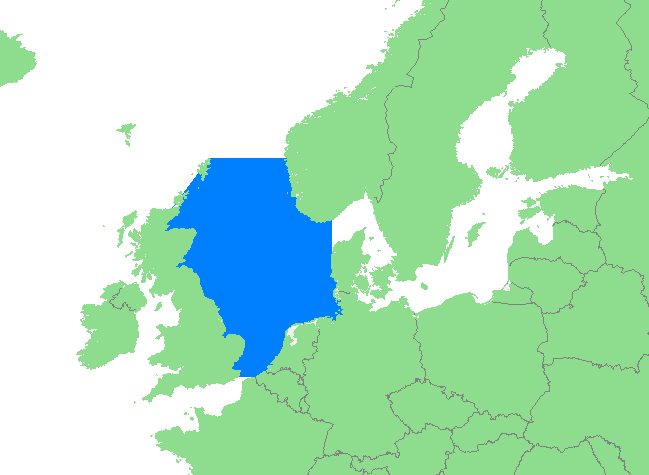 Locatie Noordzee -none